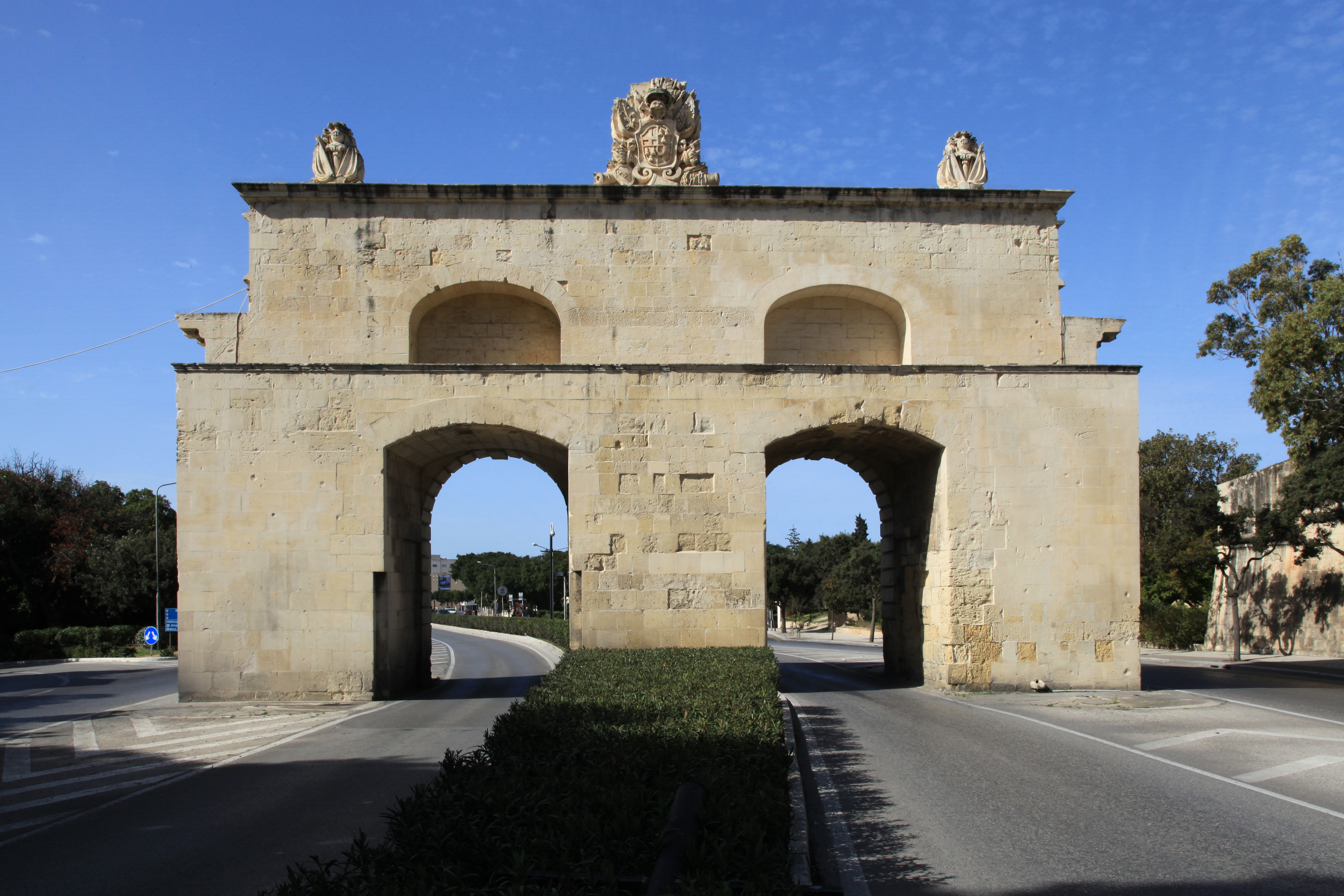 Porte des Bombes, Triq Nazzjonali in Floriana, Malta